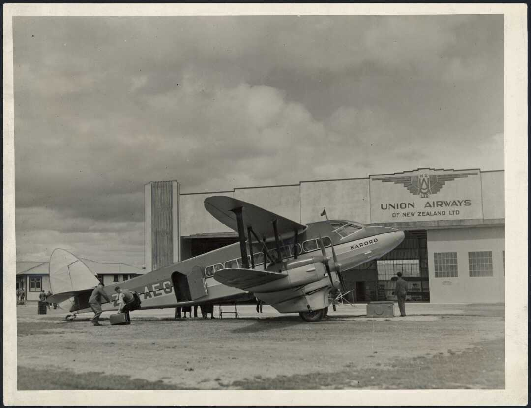 Union Airways airliner ZK-AEG Karoro at Milson aerodrome, Palmerston North about 4 November 1936